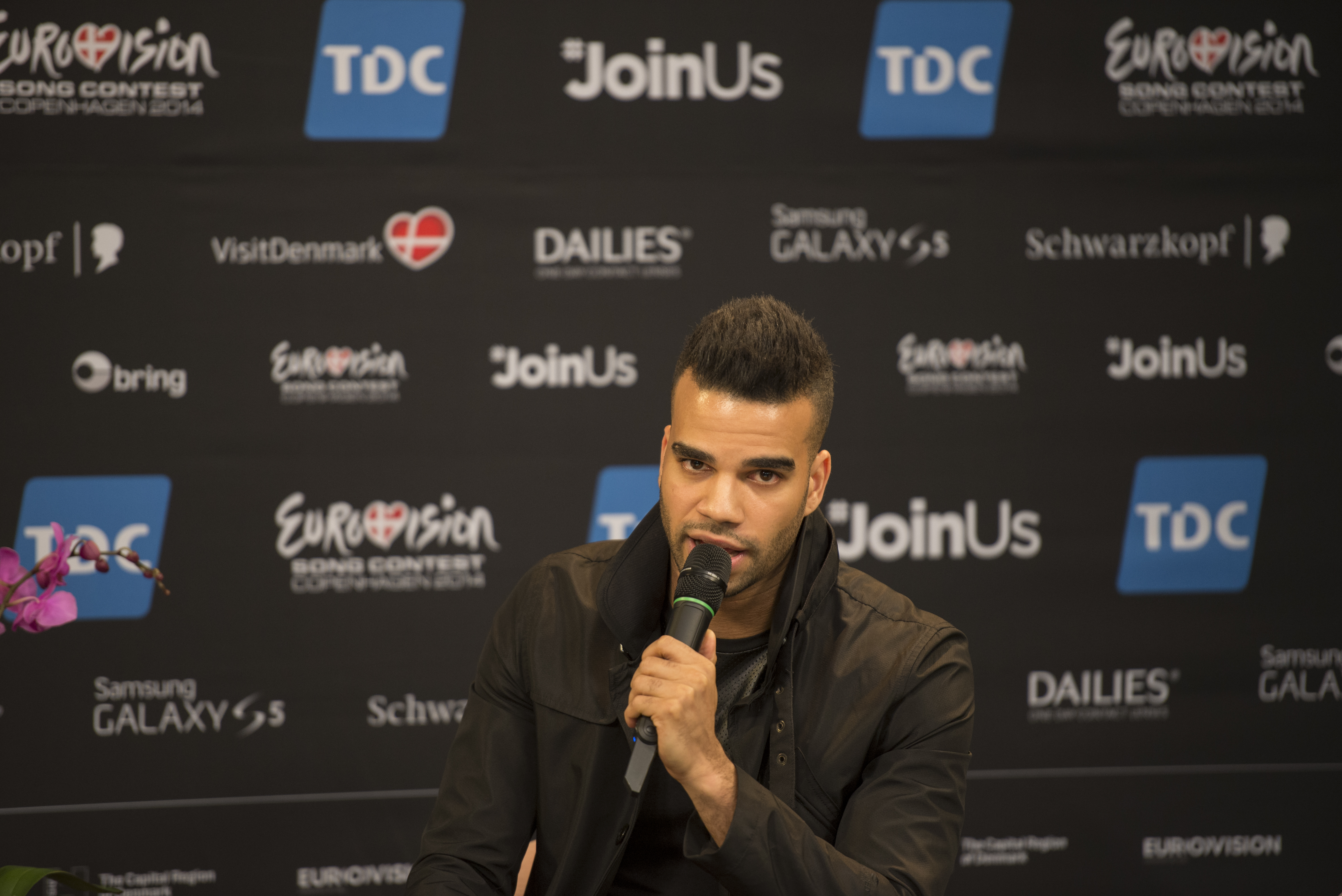 Kállay Saunders at a Meet & Greet during the Eurovision Song Contest 2014 Copenhagen. (Help translate this text)